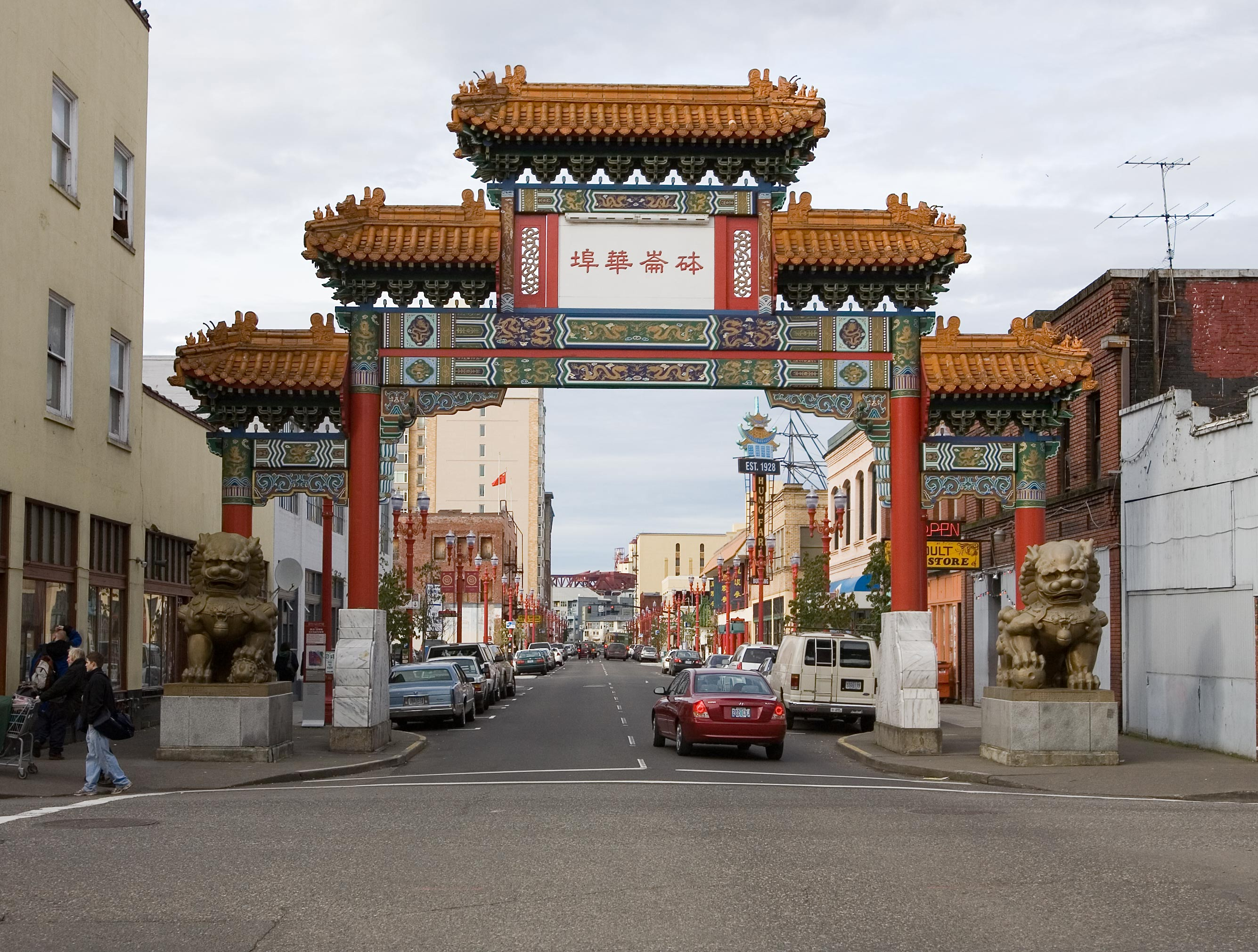 The entrance to Chinatown in downtown Portland, Oregon. The second oldest Chinatown in the United States.